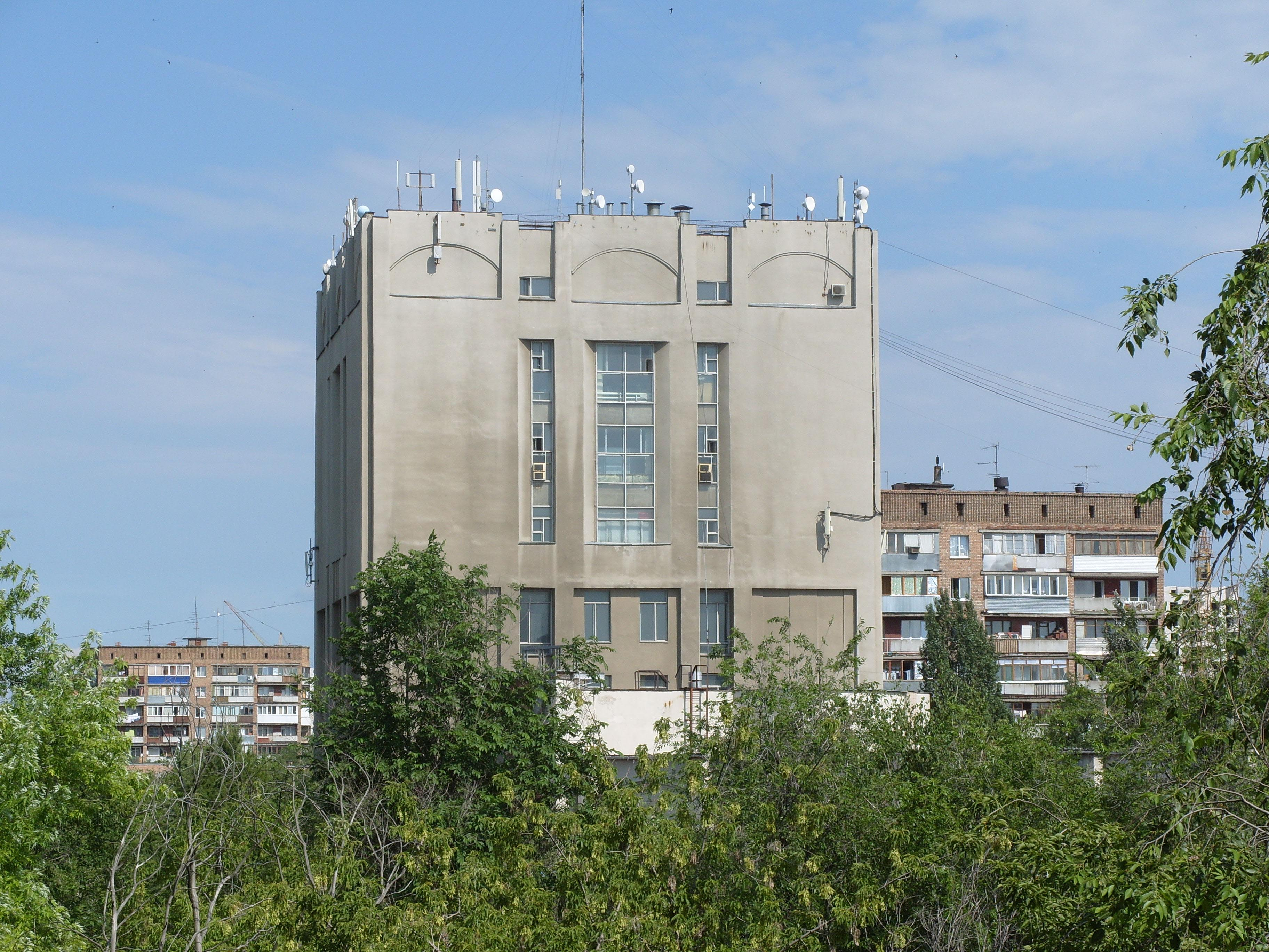 The main building of Samara metro